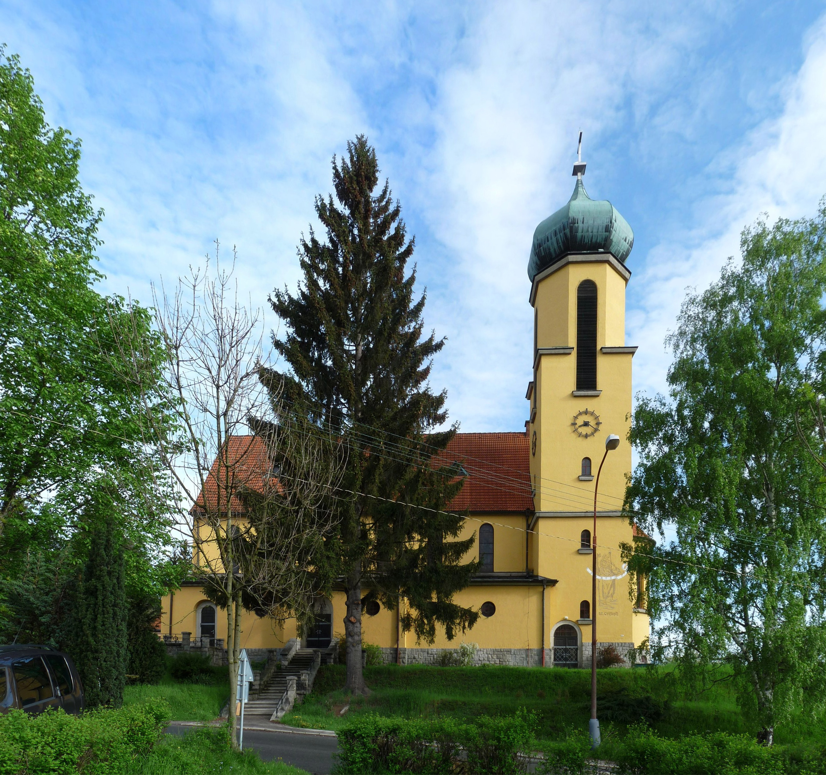 Church of Saint John of Nepomuk in Větřní, Český Krumlov District, South Bohemian Region, Czech Republic.